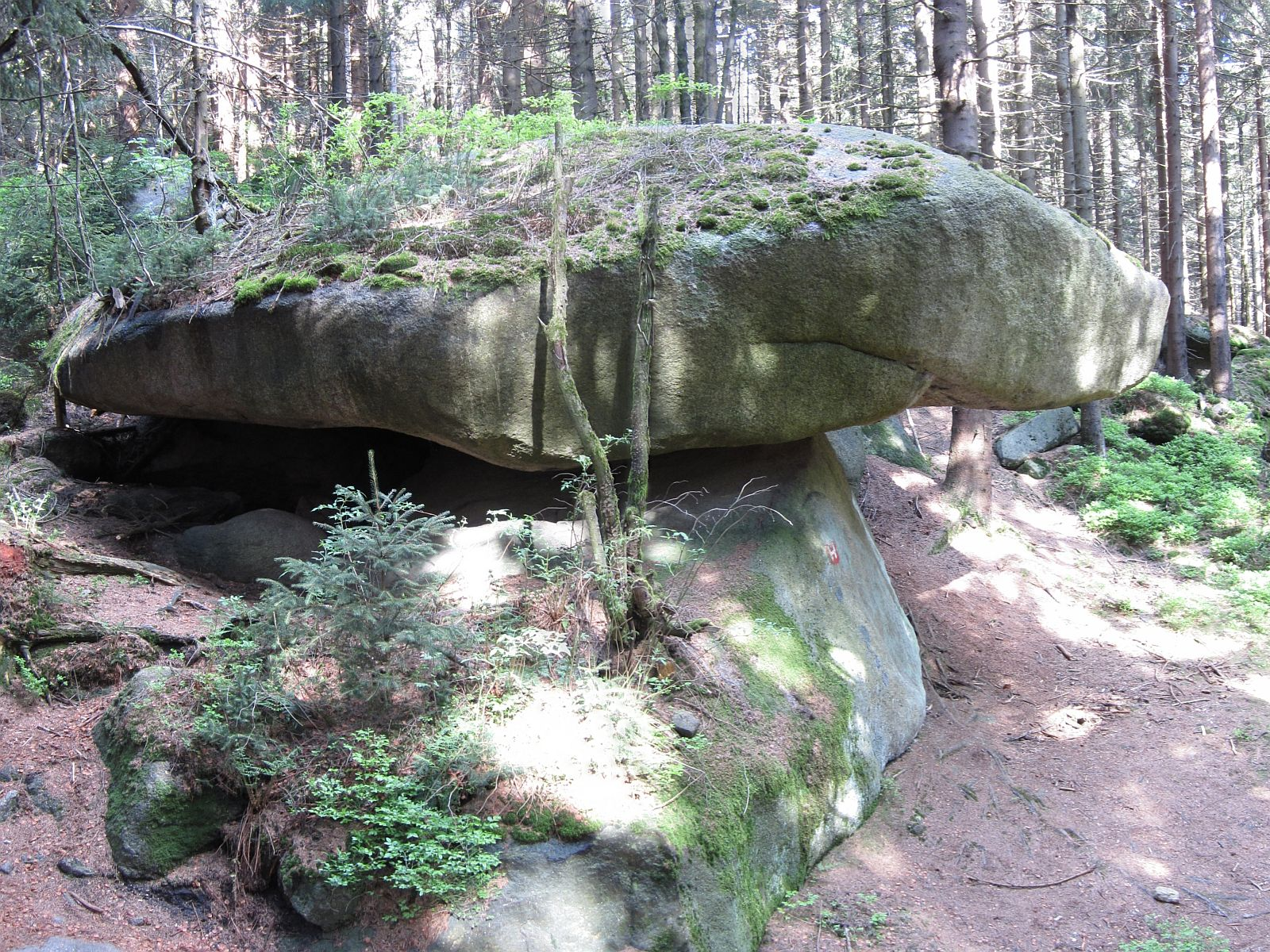 Ahornfels, Fichtelgebirge